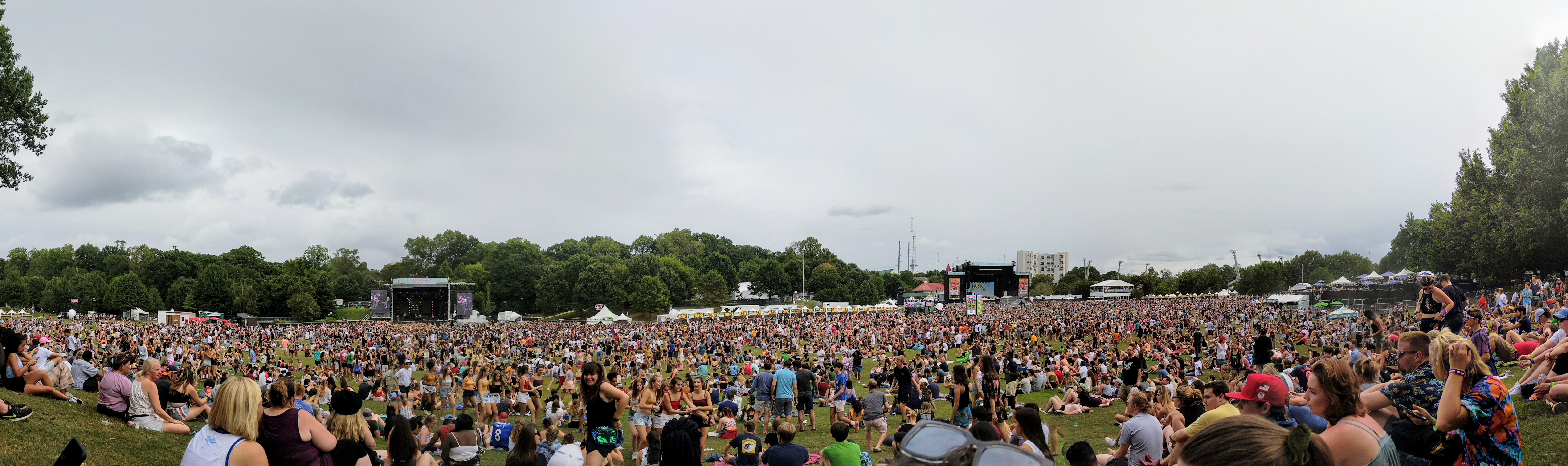 A panoramic view of the Great Southeast Music Stage and Salesforce Stage on the Piedmont Park Meadow during the afternoon of the second day of Music Midtown 2018.